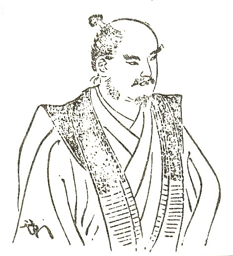 Shima Sakon (島左近), was a samurai working under Tsutsui.This Picture was carried on the book of the name, " the imperial biographic dictionary （帝国人名辞典）".This book was published in 1907.